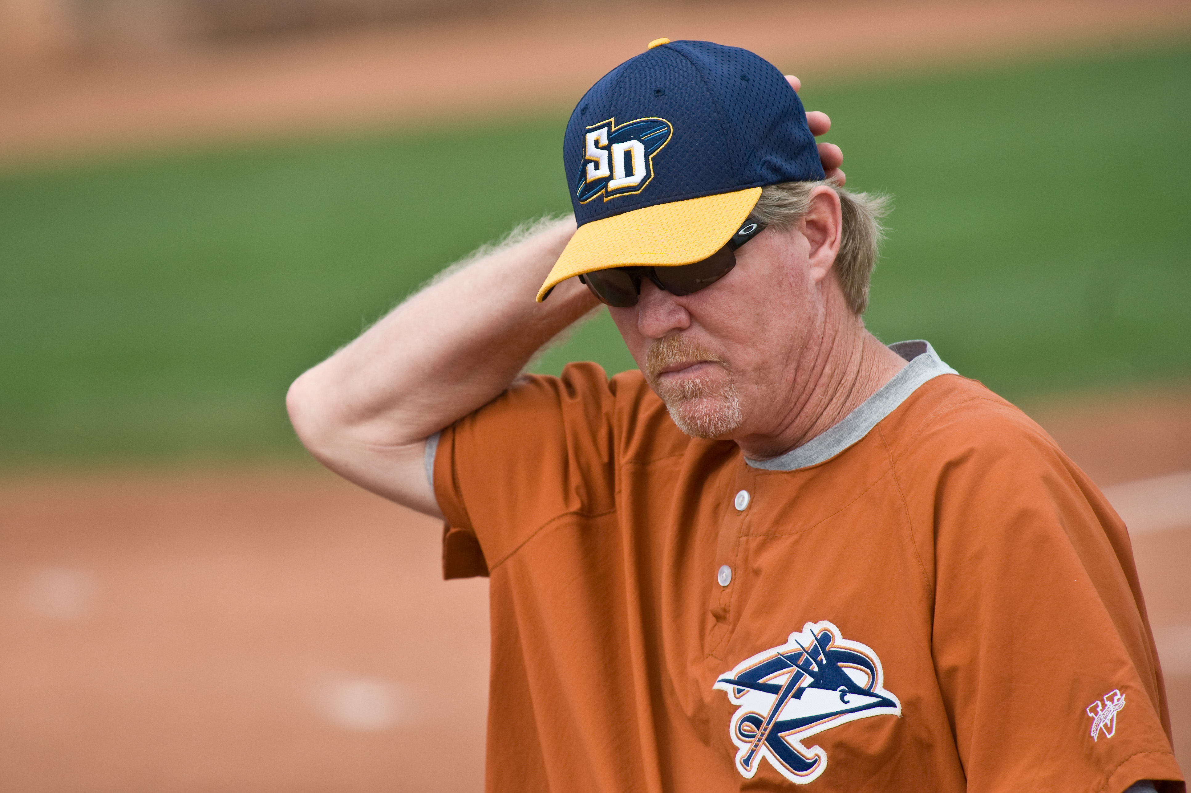 Cory Snyder of the San Diego Surf Dawgs during a 2008 game